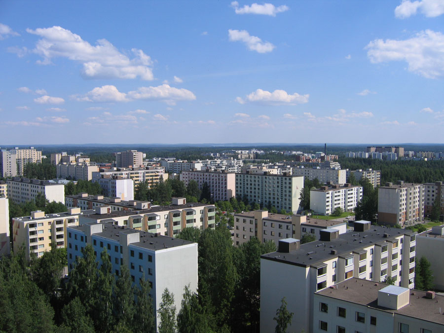 Hervanta in Tampere, Finland from the water tower